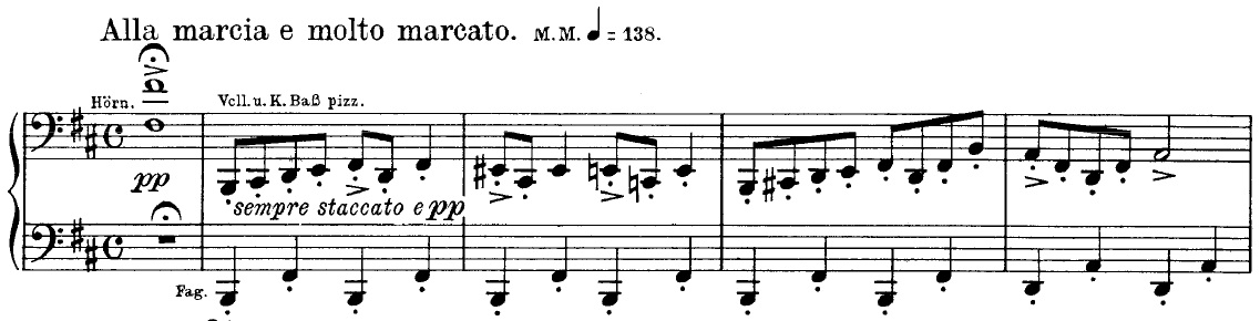 Peer Gynt Suite No.1, Op.46, thème a1 de In the Hall of the Mountain King